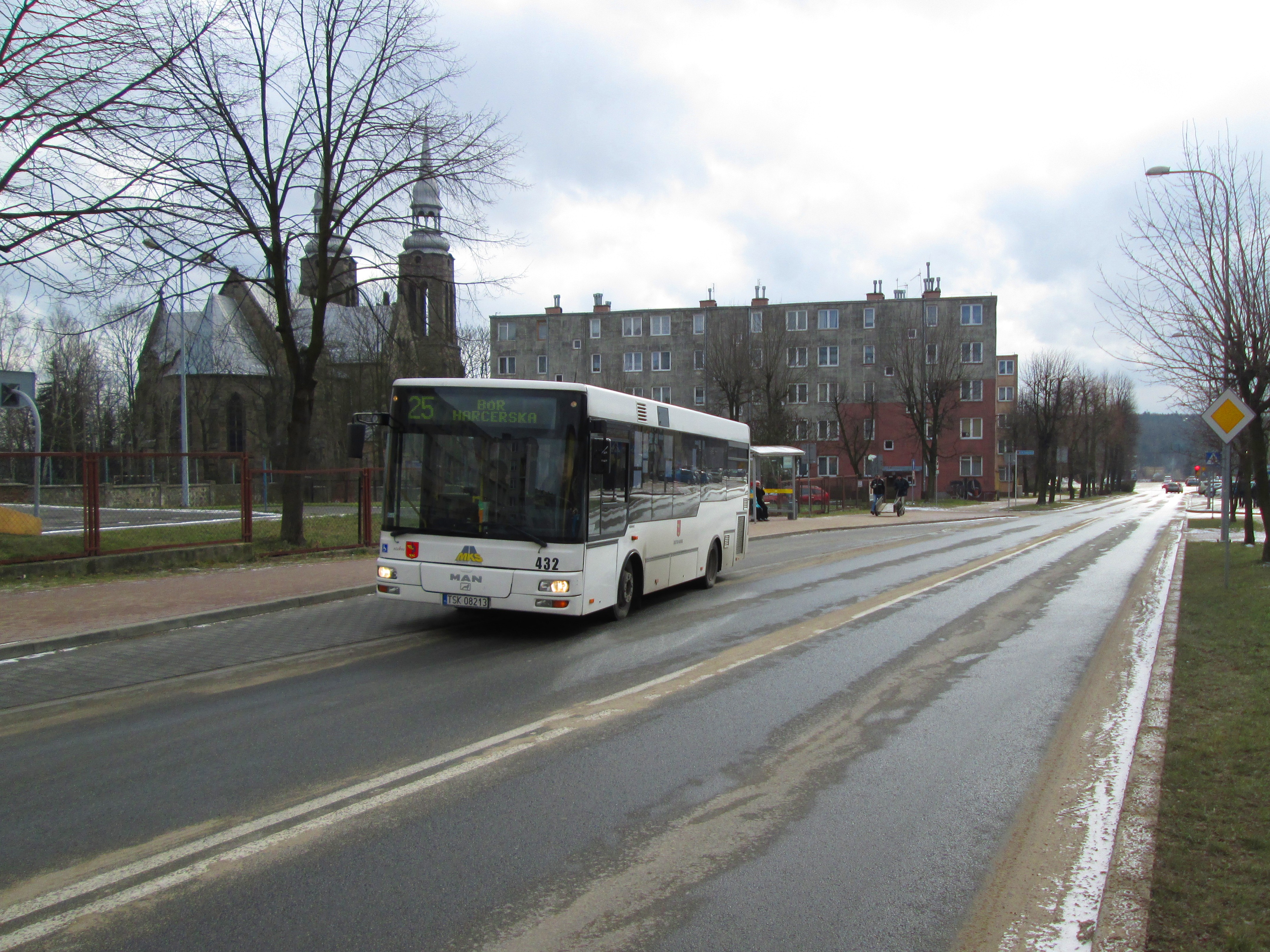 MAN NM223 bus (stock number #432) belonging to MKS, operating line 25 to Bór, on Słowackiego street in Skarżysko-Kamienna.